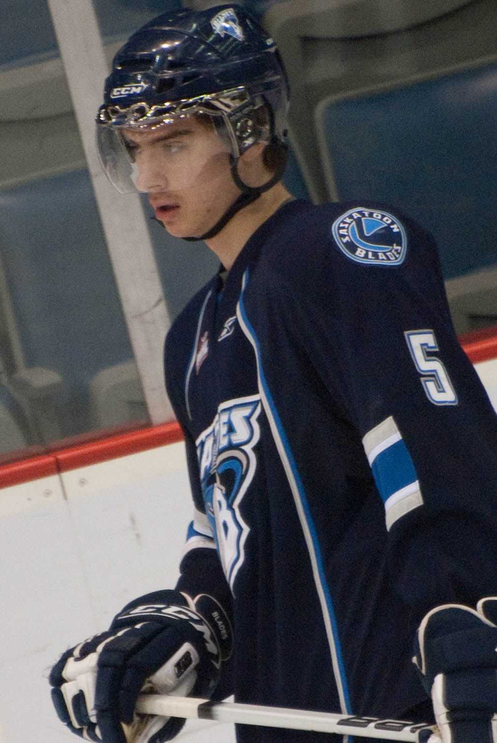 Duncan Siemens of the Saskatoon Blades, during the 2010-11 WHL regular season.